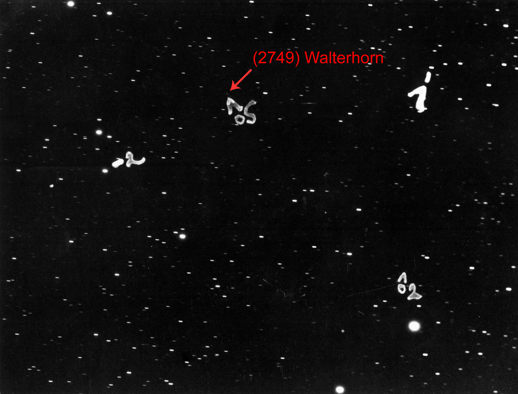 A picture of (2749) Walterhorn